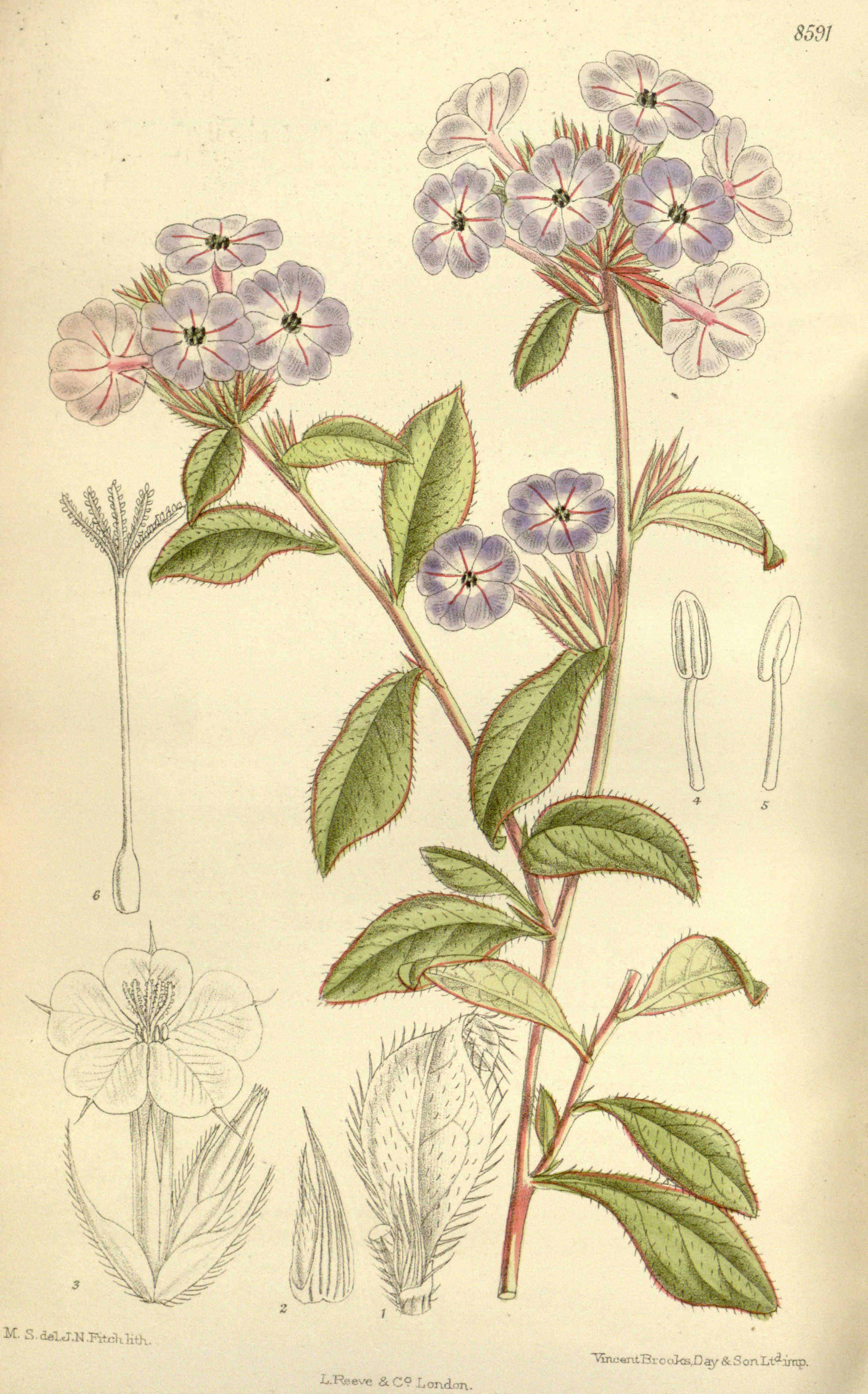 Ceratostigma willmottianum, Plumbaginaceae